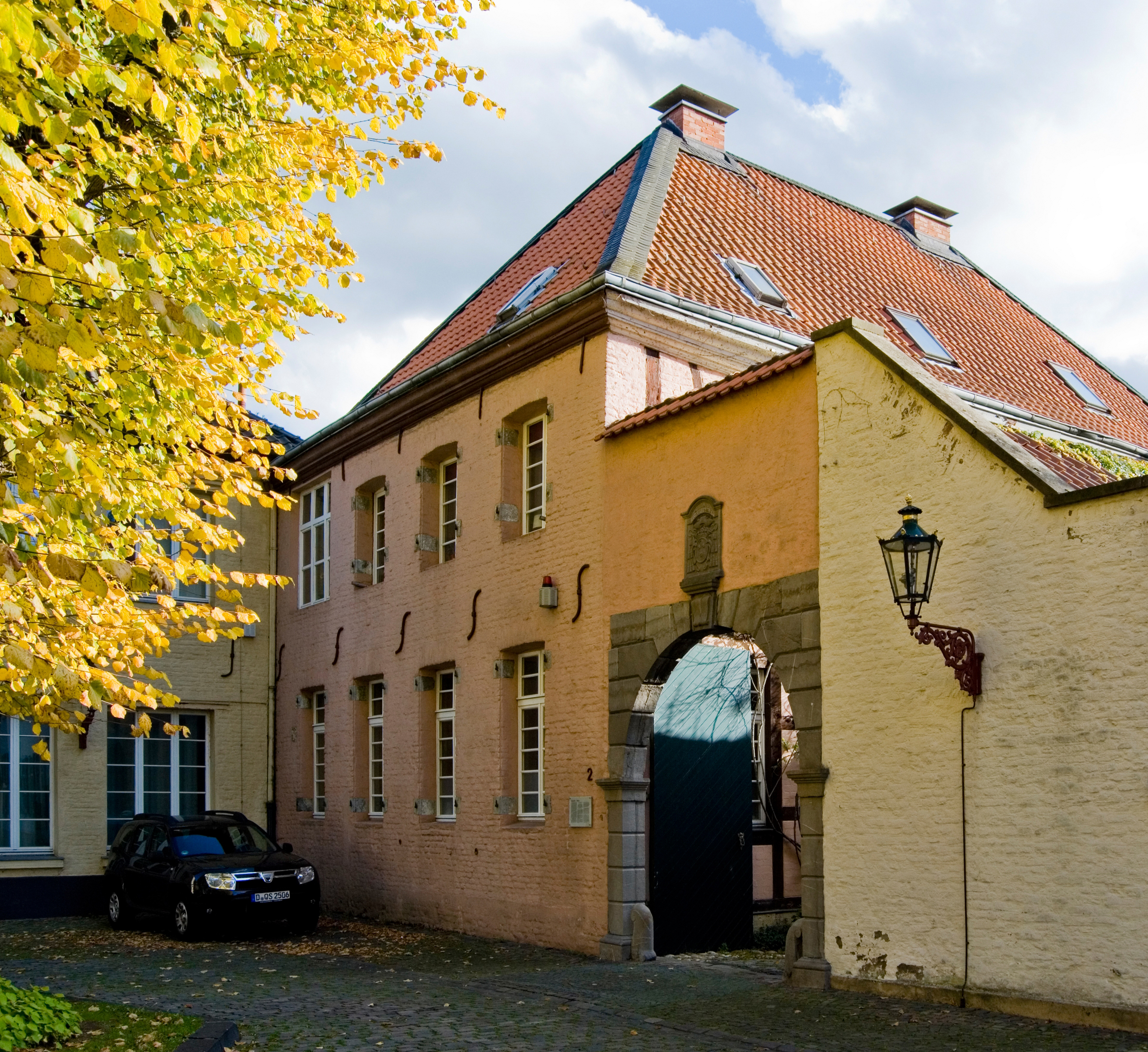 Düsseldorf (North Rhine-Westphalia, Germany) – Kaiserswerth – square Suitbertus-Stiftsplatz – listed “Degode House” This image shows a heritage building in Germany, located in the North Rhine-Westphalian city Düsseldorf (no. 427). This photograph was taken with a Nikon D3000